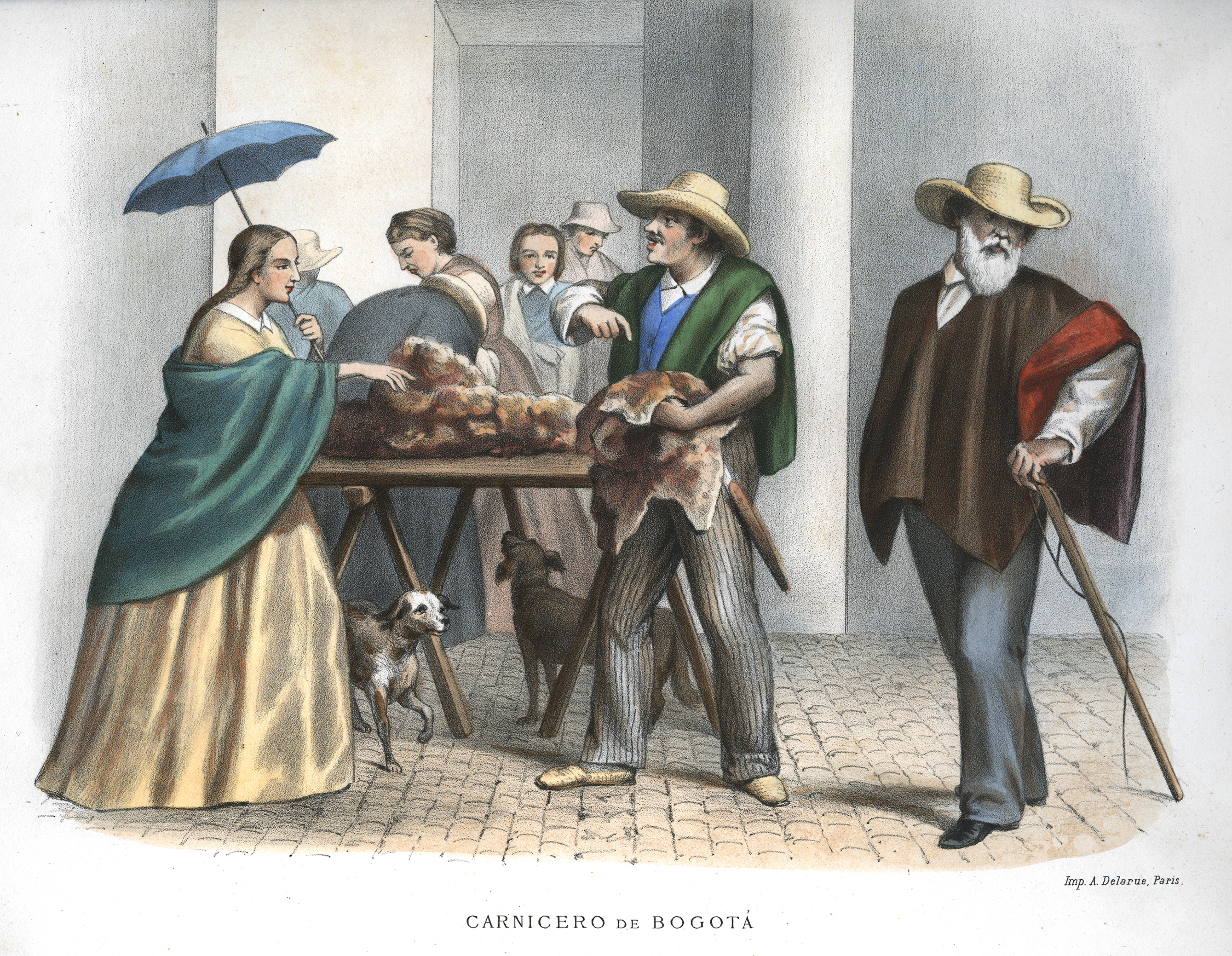 Aquatint, 26 x 33 cm, colour. A market scene in Bogotá depicts a butcher selling his meats to a woman